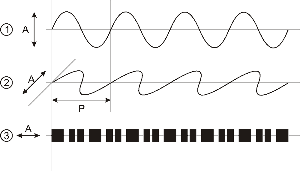 Different types of waves